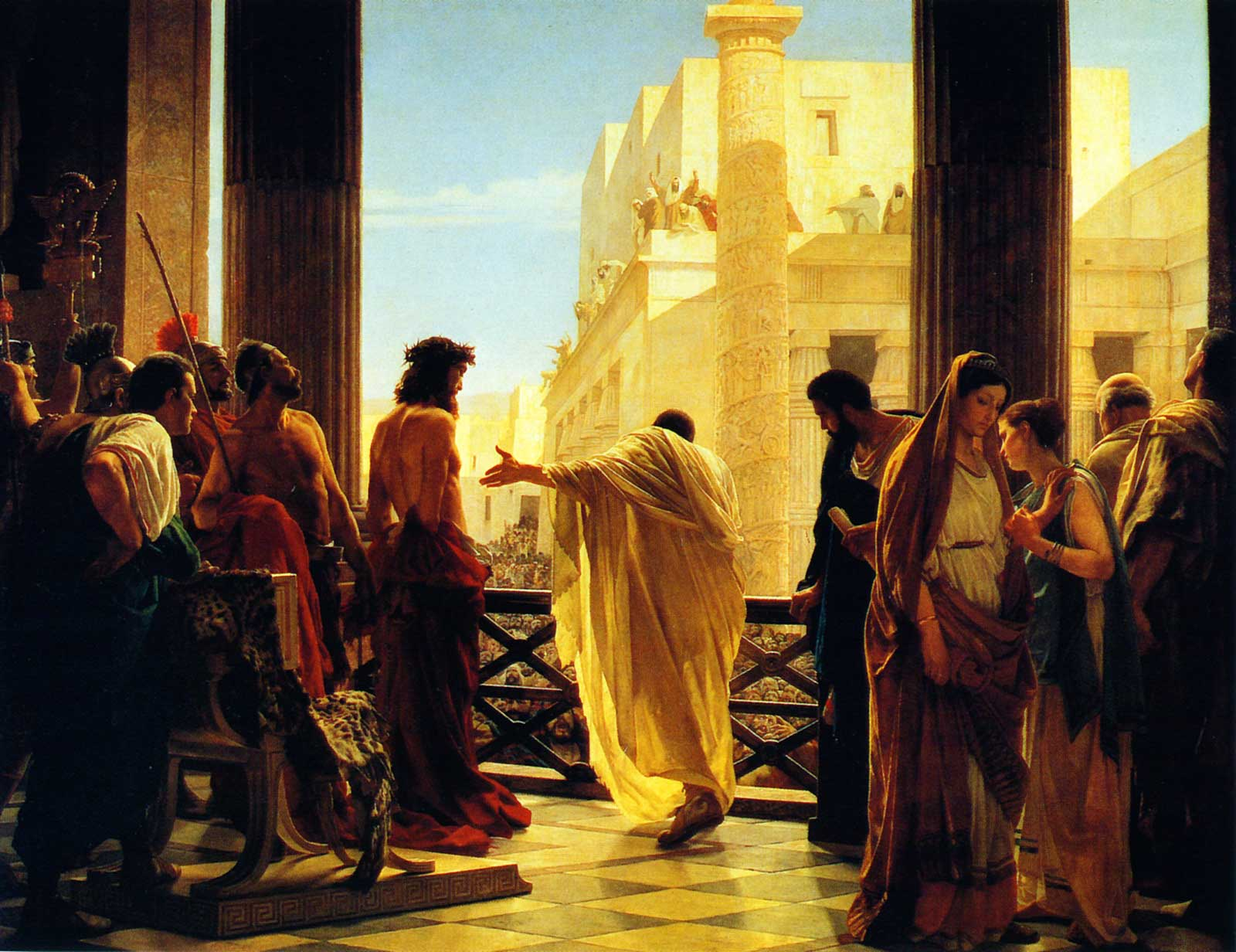 depiction of Pontius Pilate presenting a scourged Christ to the people. John 19:5